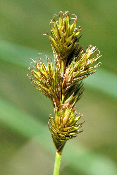 Carex ovalis from Commanster, Belgian High Ardennes .